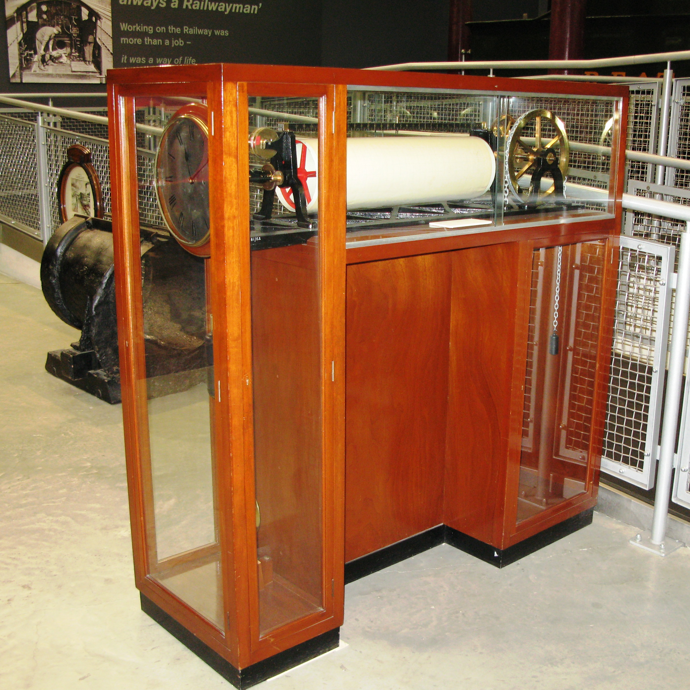 A tide recording machine designed by Isambard Kingdom Brunel to measure the tidal range on the River Tamar at Saltash in Cornwall, United Kingdom, as part of the design work for his Royal Albert Bridge, which was completed for the Cornwall Railway in 1859.